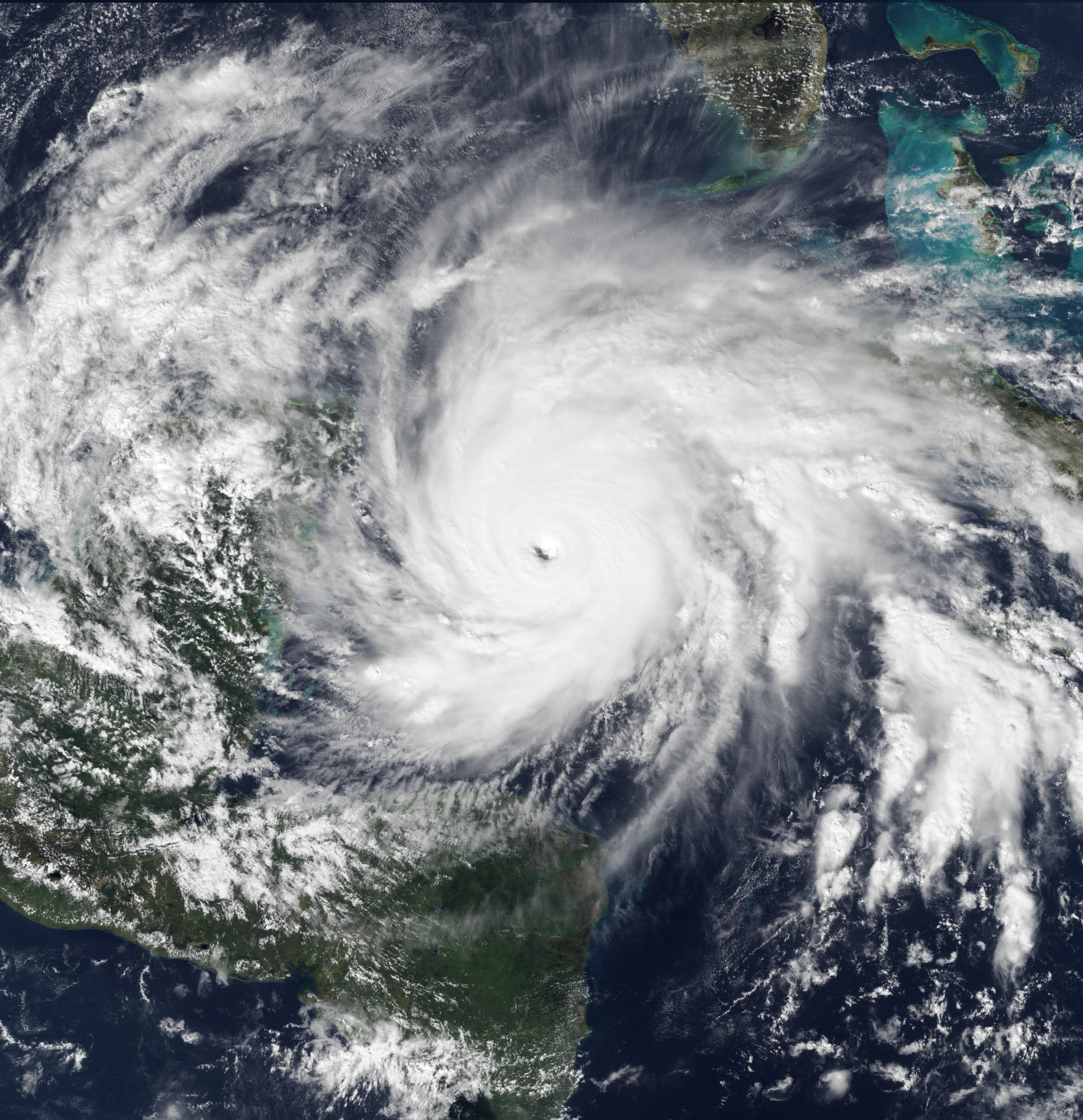 Satellite image of Hurricane Michelle in the western Caribbean Sea on November 3, 2001, at 1845 UTC. At the time, it was a high-end Category 3 hurricane.